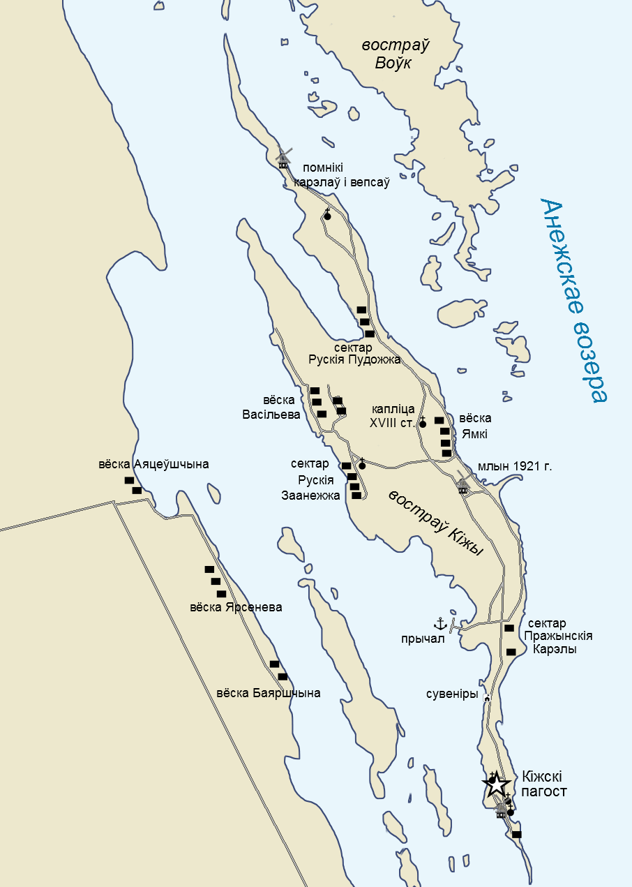 Map of the Kizhi Island in Belarusian